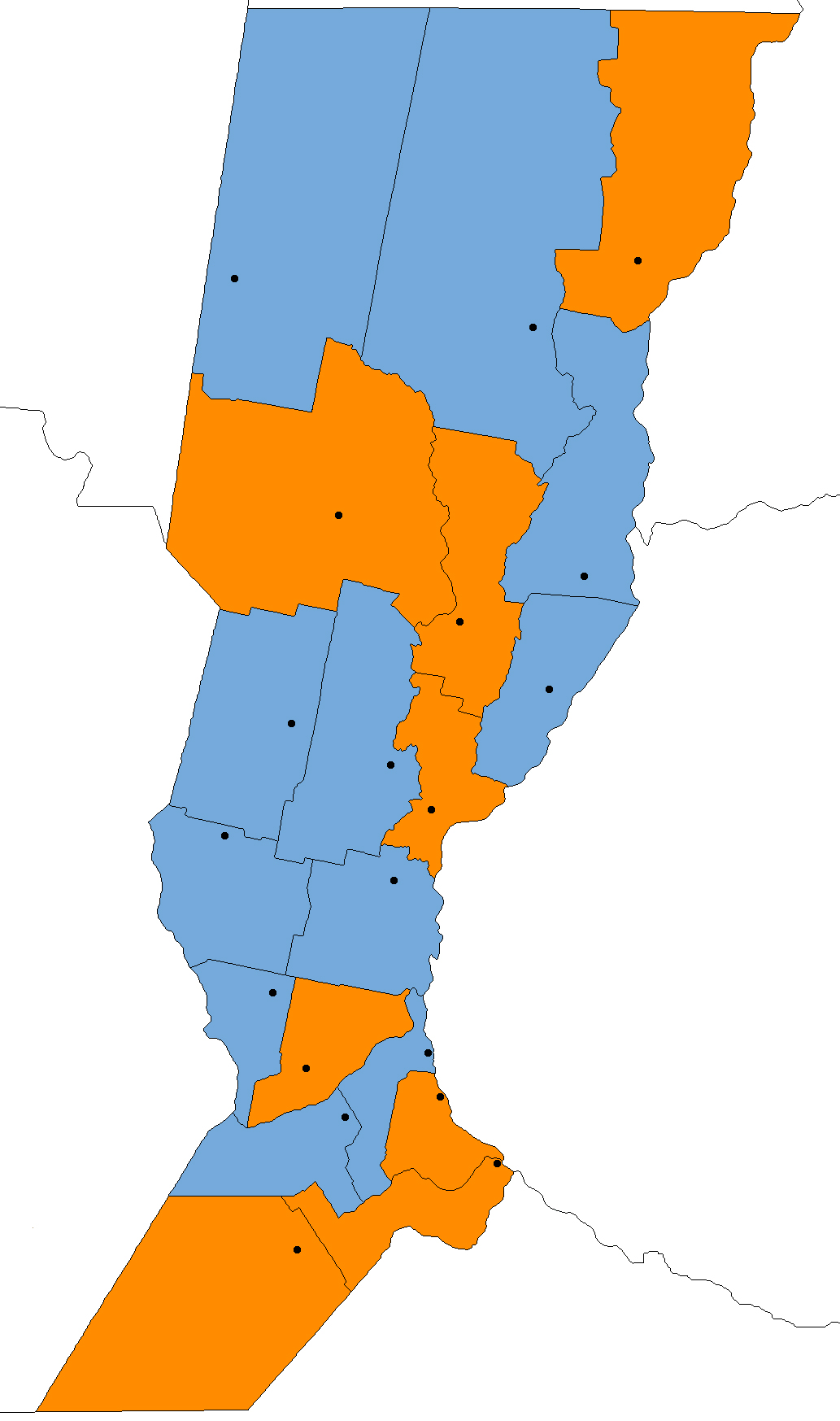 Elections results by departament to provincial senators of the province of Santa Fe, Argentina Frente Progresista, Cívico y Social Frente para la Victoria